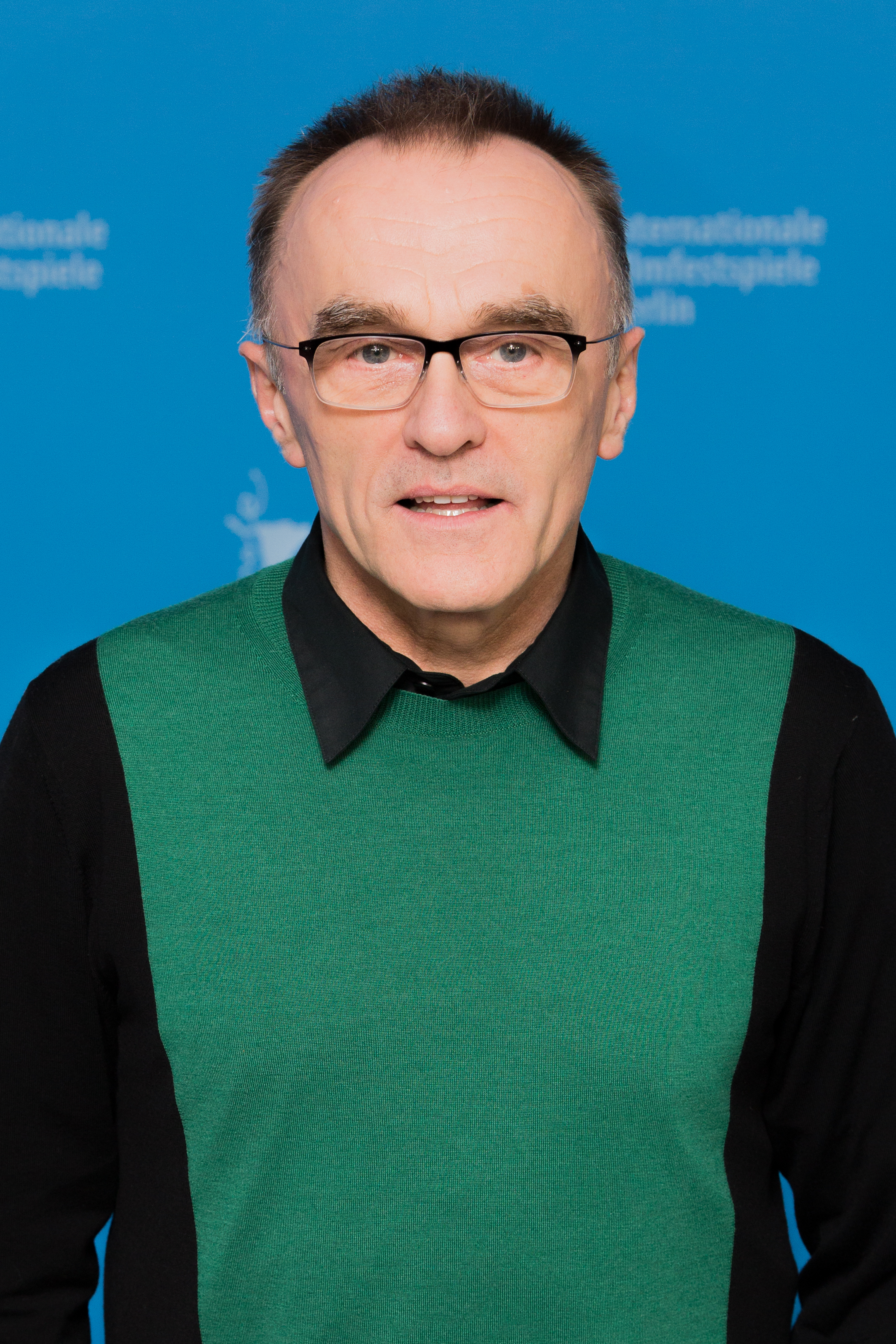 Danny Boyle presenting T2 Trainspotting at the Berlinale 2017